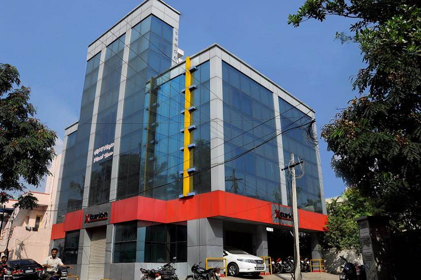 Tata BSS Chennai Office